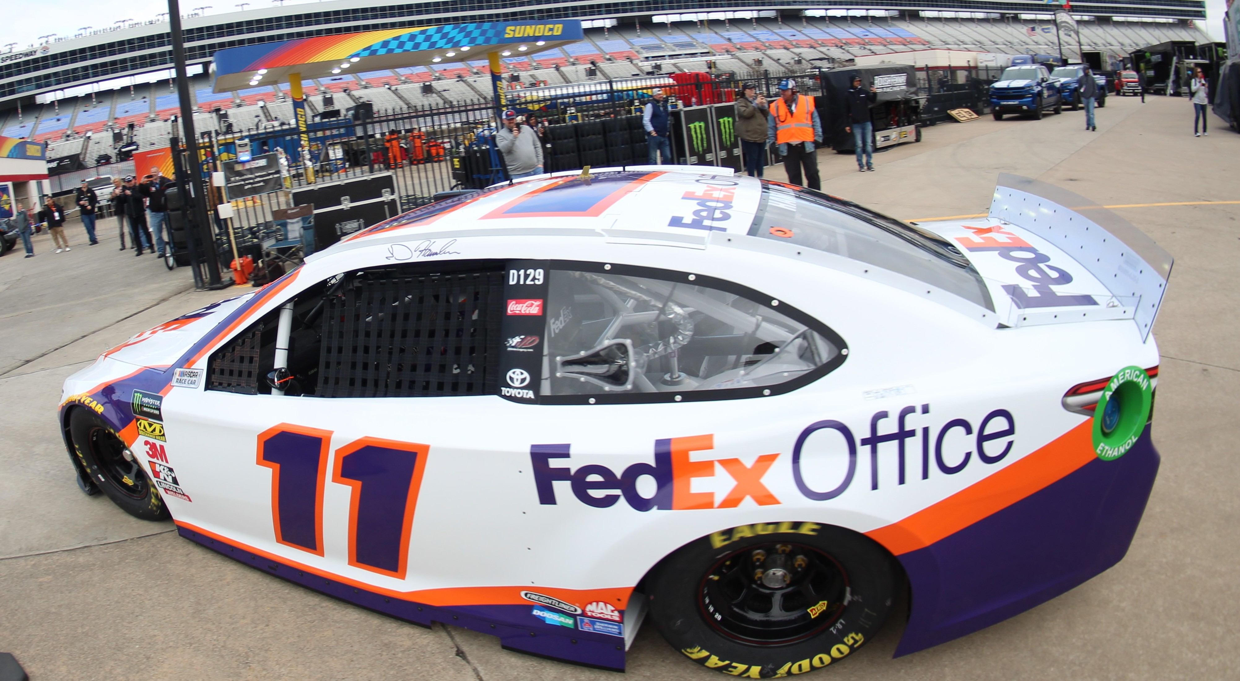 2019 O'Reilly Auto Parts 500